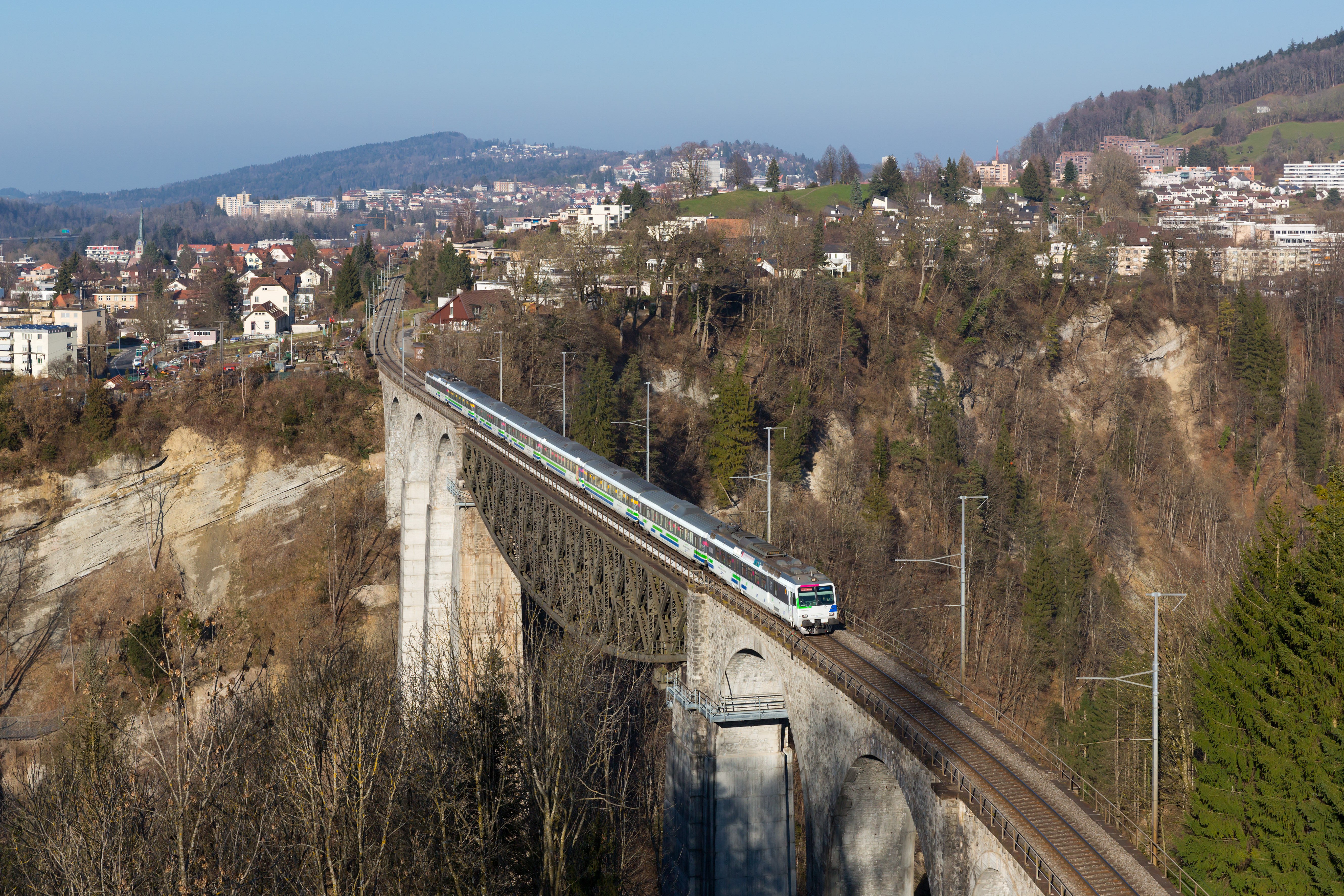 A Voralpenexpress service from St. Gallen to Lucerne operated by Südostbahn is crossing the Sitter viaduct near St. Gallen, Switzerland. The train consists of two RBDe 561 "NPZ" EMUs and six Revvivo coaches.